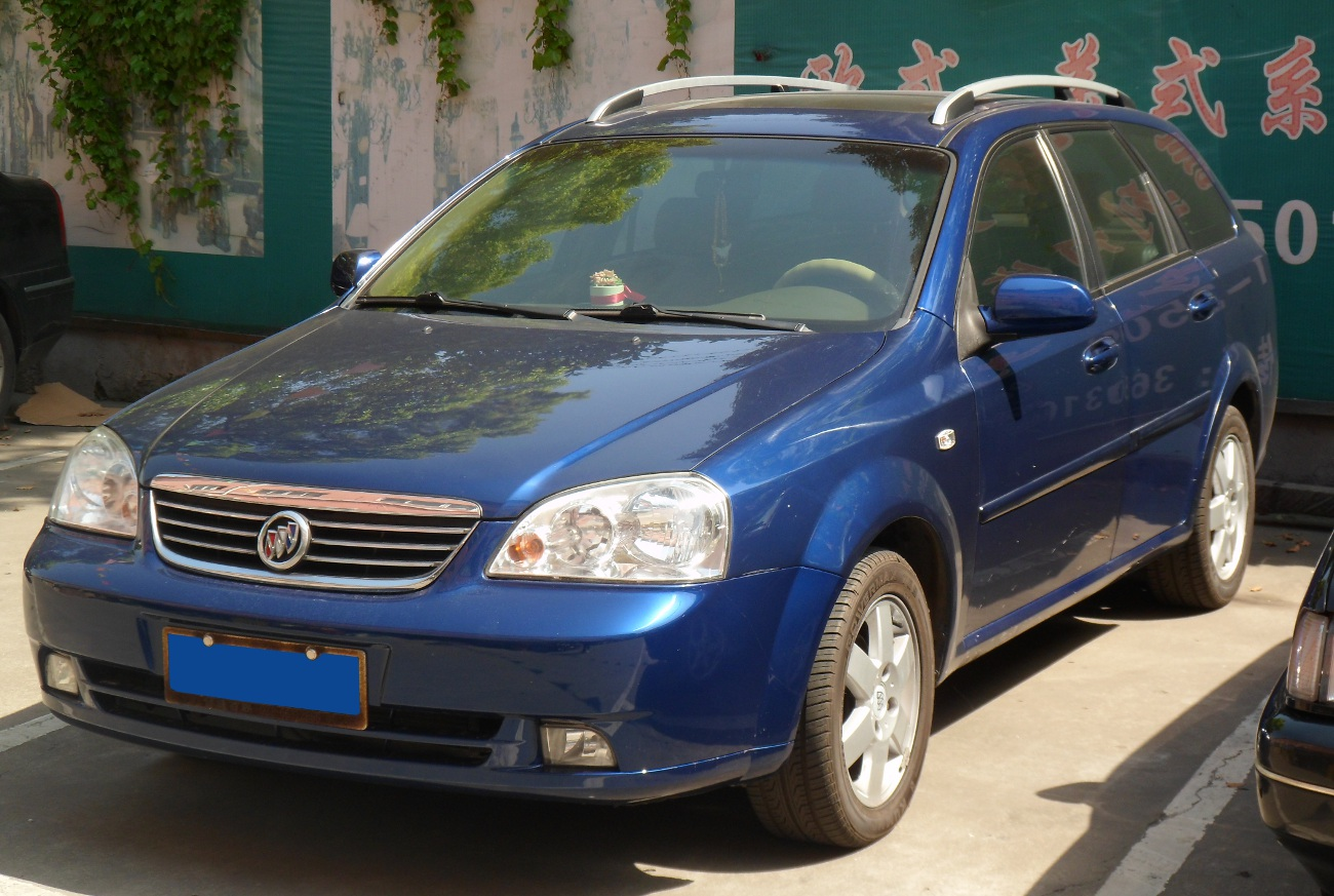 Buick Excelle Wagon photographed in Shanghai, China.